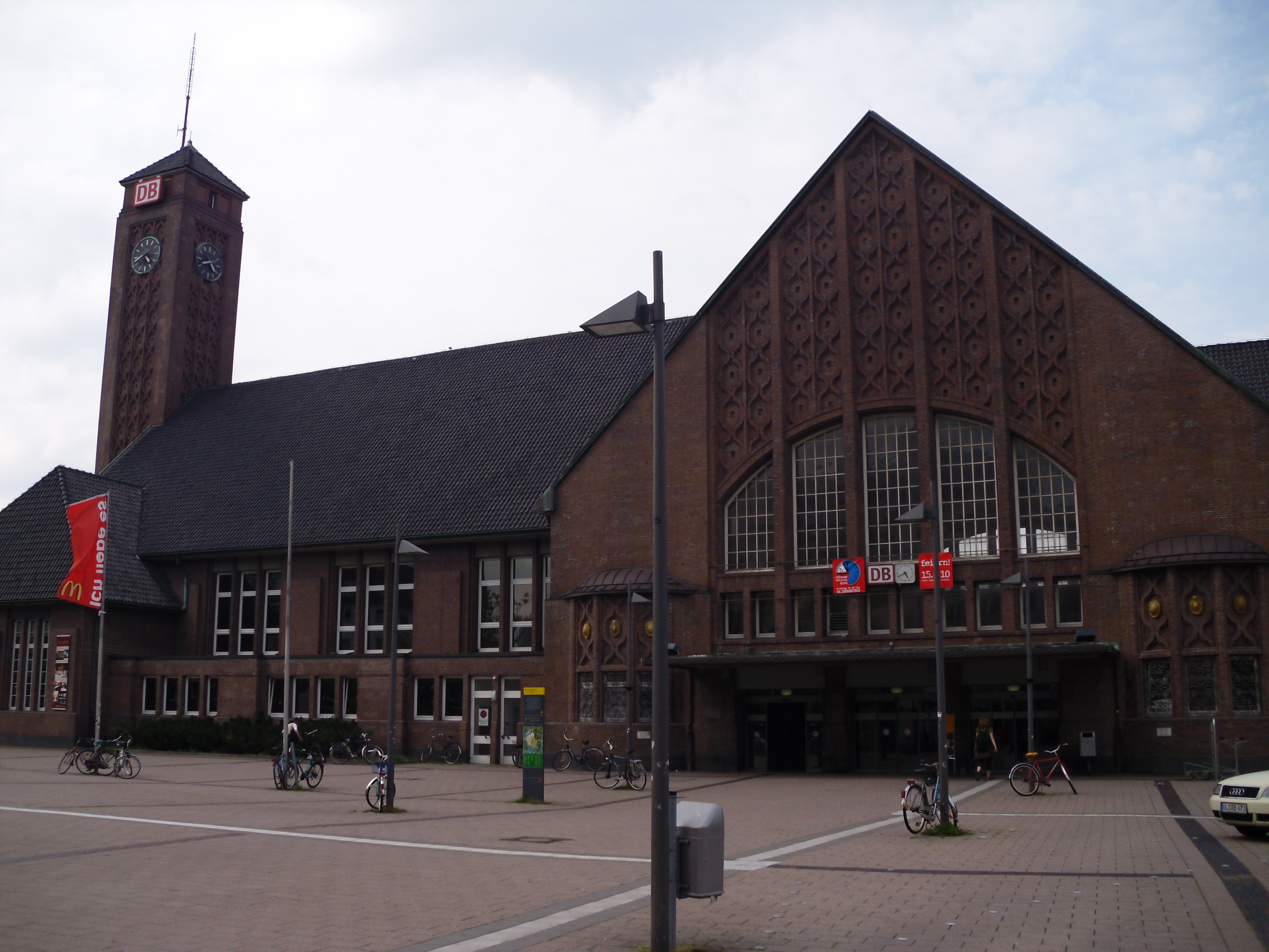 The main entrance of the Oldenburg (Oldb) central station